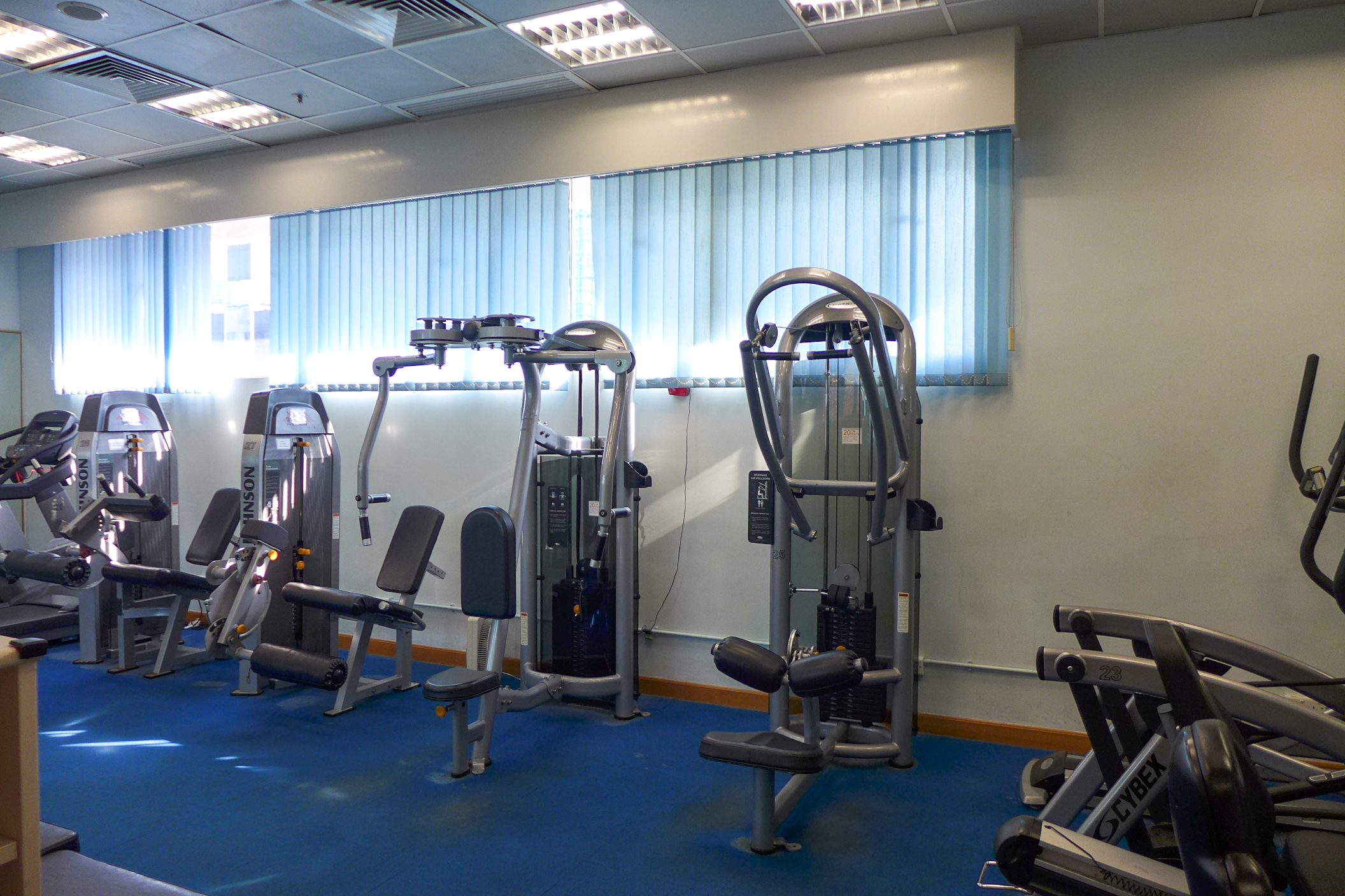 Lockhart Road Sports Centre Gym Room